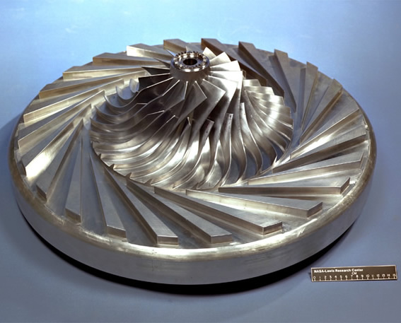 The NASA CC3 compressor is a single-stage, high speed centrifugal compressor with a 4:1 pressure ratio. Consisting of a radial impeller with 15 main and 15 splitter blades as well as a diffuser, the compressor is designed to operate at about 22,000 rpm. For more information see NASA CC3 Centrifugal Compressor Case Study